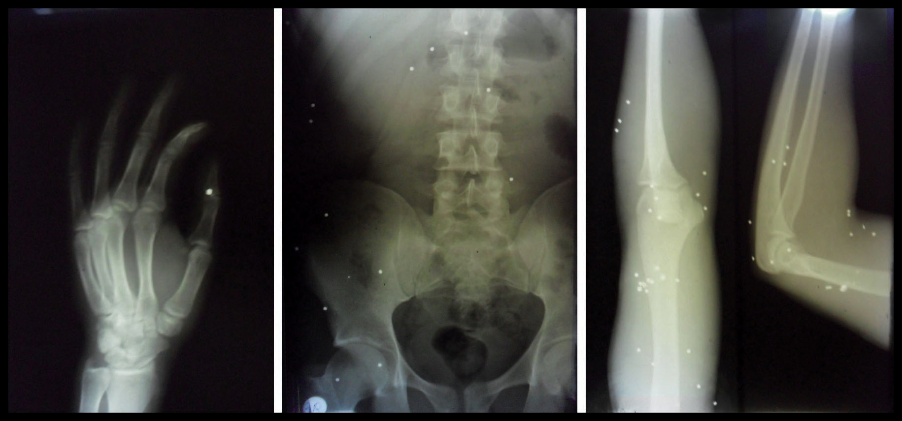 Scan of Young Man injured from small bullets fired